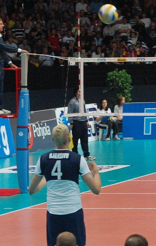 Finland volleyball player Olli-Pekka Ojansivu get ready for serving in World league match summer 2008.